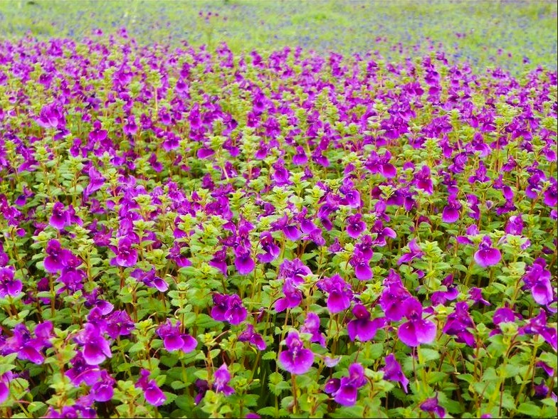 Kas plateau, Satara district, India